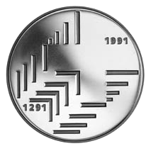 Swiss Commemorative Coin 1991 CHF 20 obverse